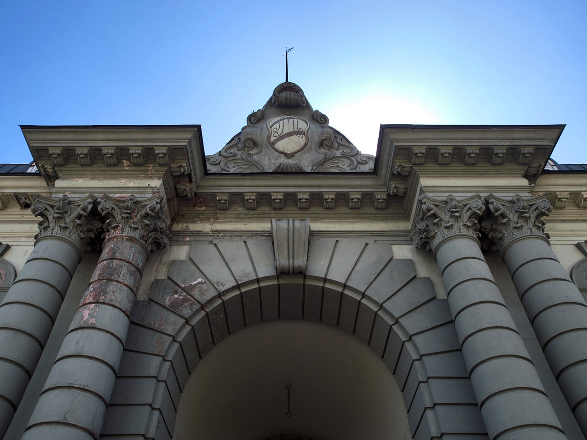 Mantashev Stables in Moscow (built 1911-1912). Early work by Vesnin brothers based on a draft by Oscar Muntz